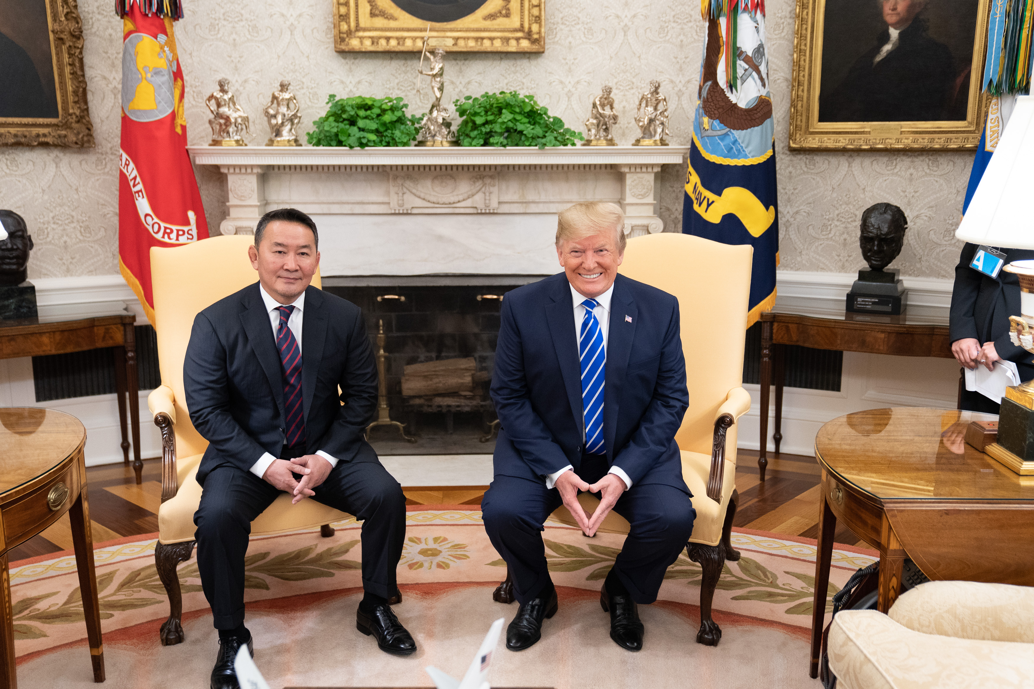 President Donald J. Trump poses for photos with Mongolian President Khaltmaagiin Battulga during a bilateral meeting Wednesday, July 31, 2019, in the Oval Office of the White House. (Official White House Photo by Shealah Craighead)